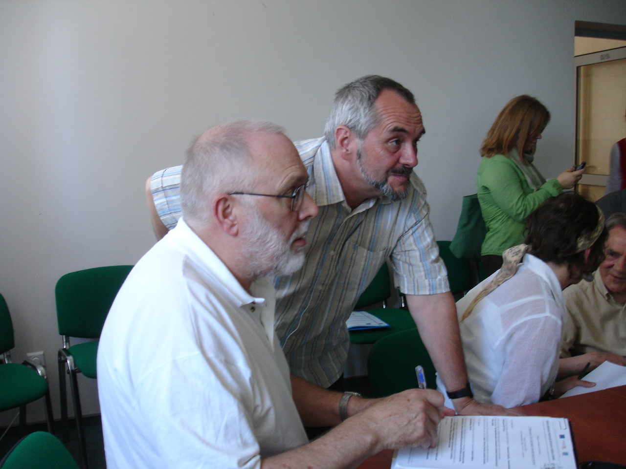 Paul Best (left side) and Andrzej Wielocha